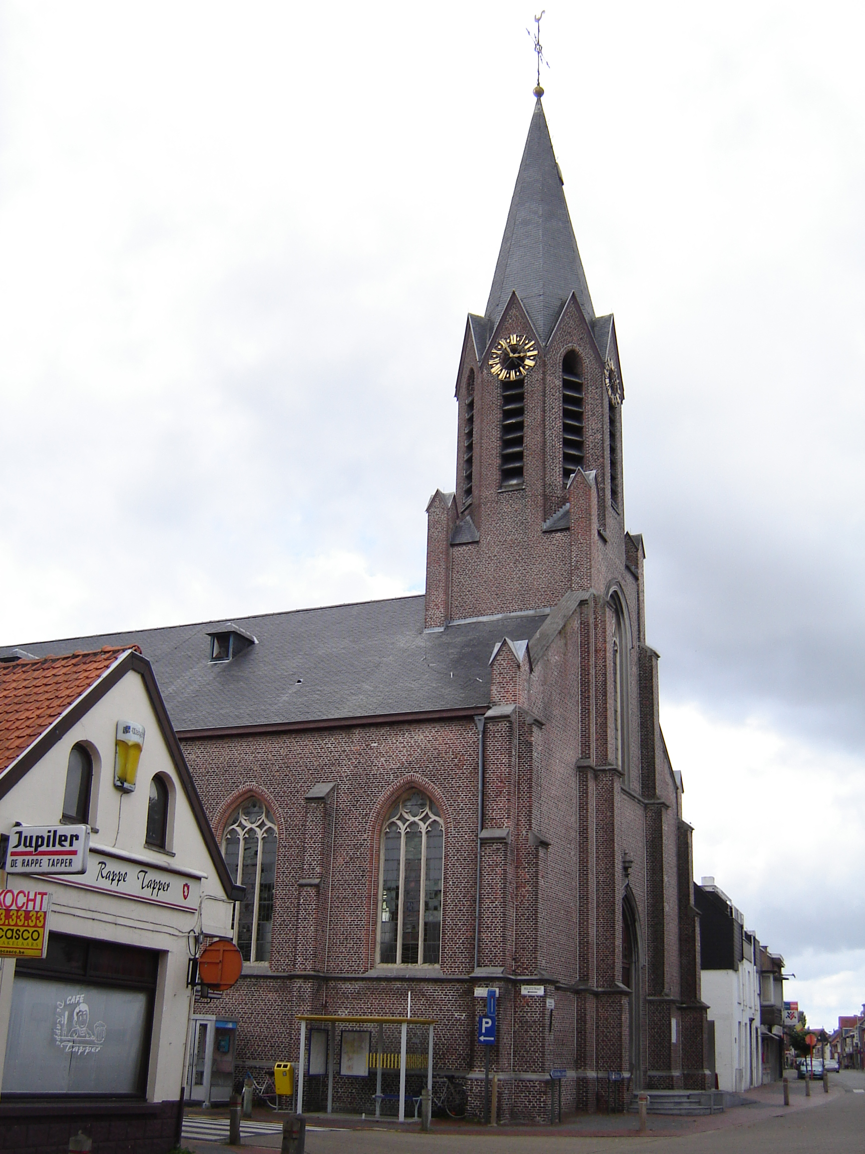 Church of the Assumption of Mary in De Klinge. De Klinge, Sint-Gillis-Waas, East Flanders, Belgium